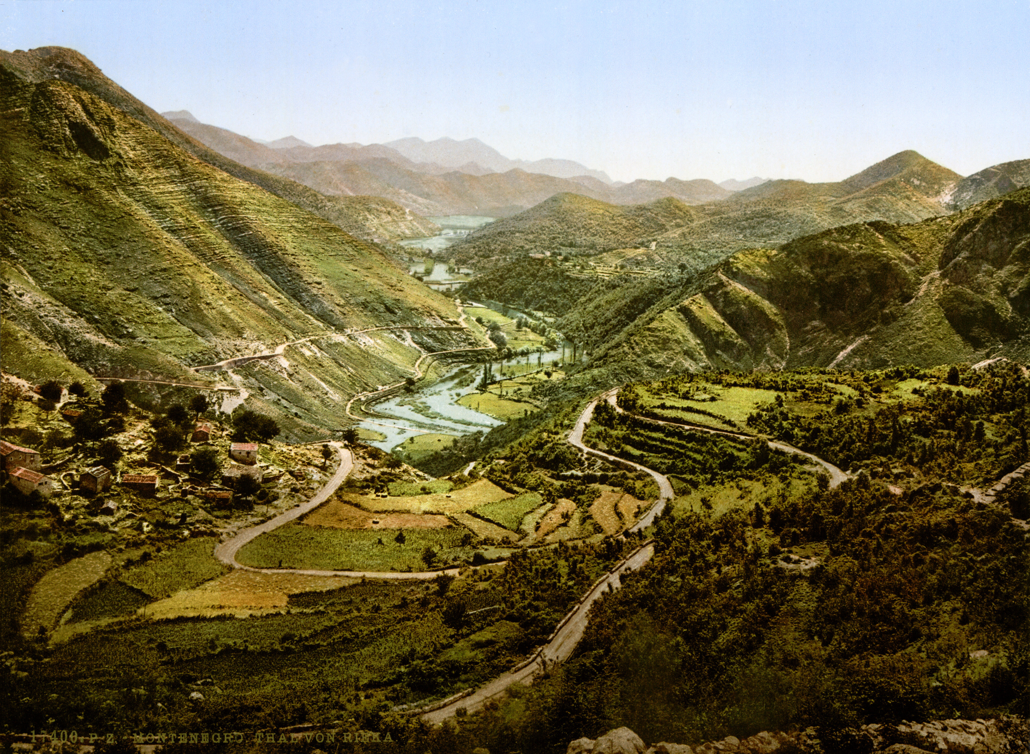 From the Detroit Publishing Co. Collection at the U.S. Library of Congress. More postcards from the Balkans | More photochrom postcards [PD] This picture is in the public domain.